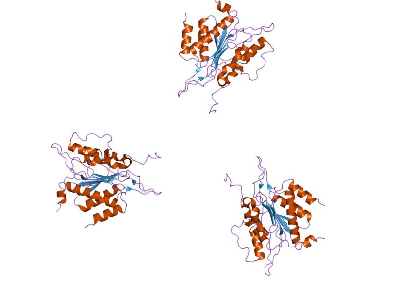 Cartoon representation of the molecular structure of protein registered with 1qc9 code.